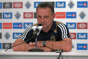 Photograph of soccer player and coach, Piotr Nowak. Wilson Wong photo.